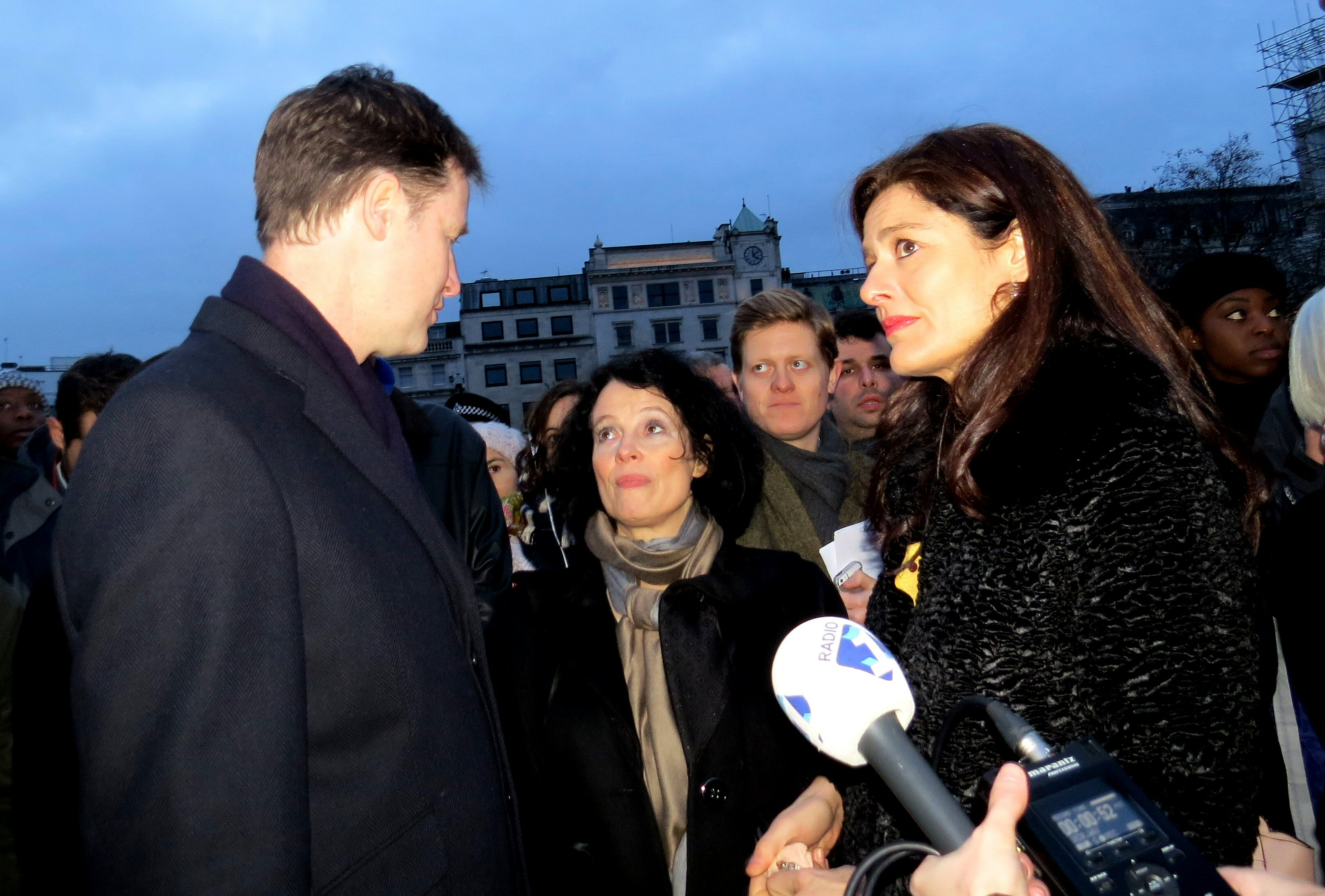 Sylvie Bermann talks to Nick Clegg and his wife at the Je Suis Charlie rally in Trafalgar Square, London January 2015